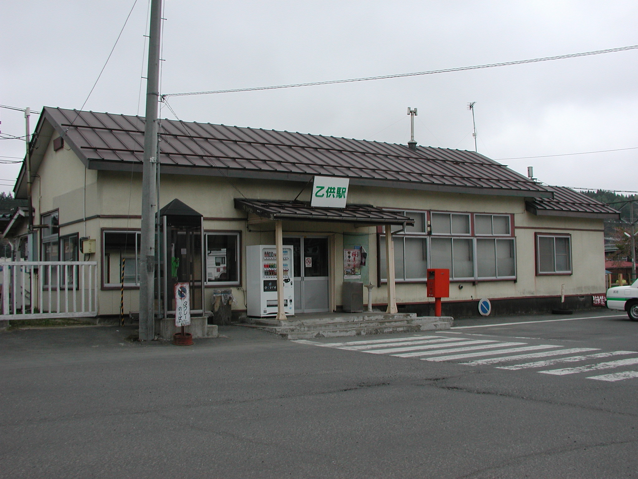 Ottomo Station